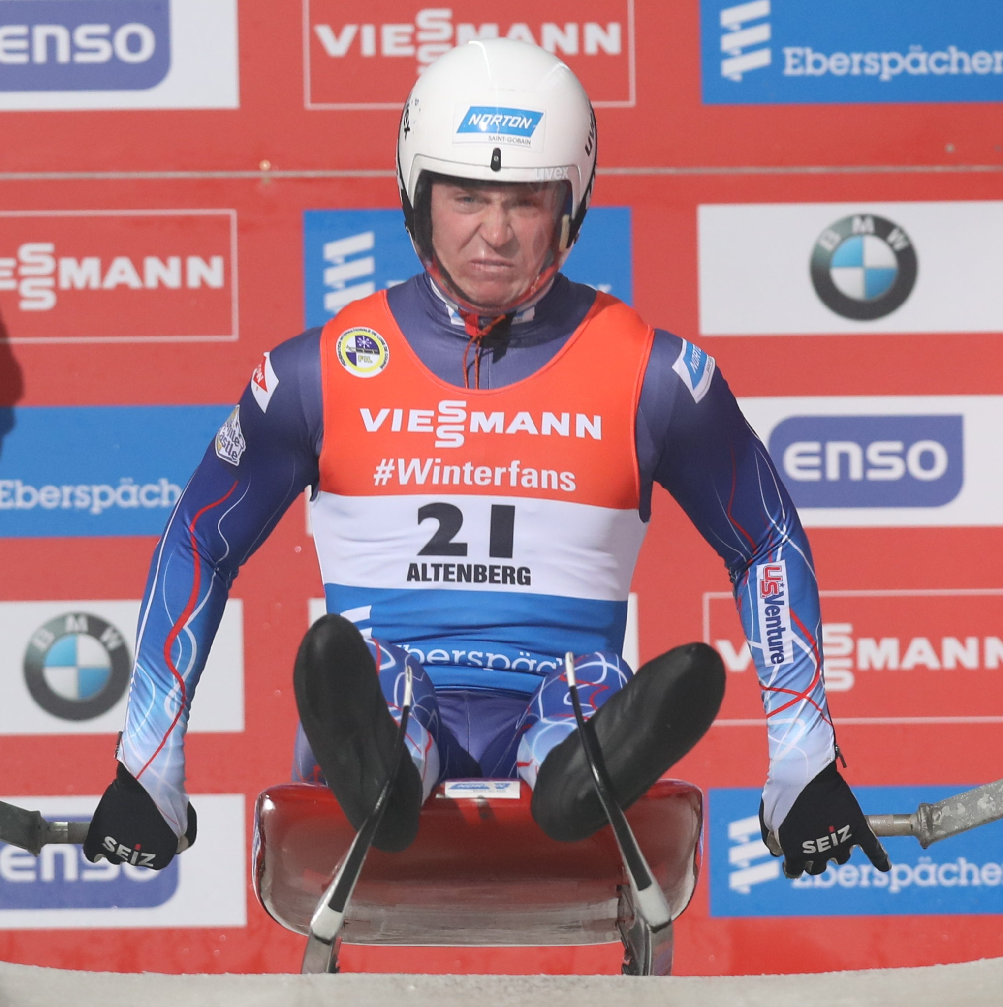 Men's World Cup race at the 2018/19 Luge World Cup in Altenberg